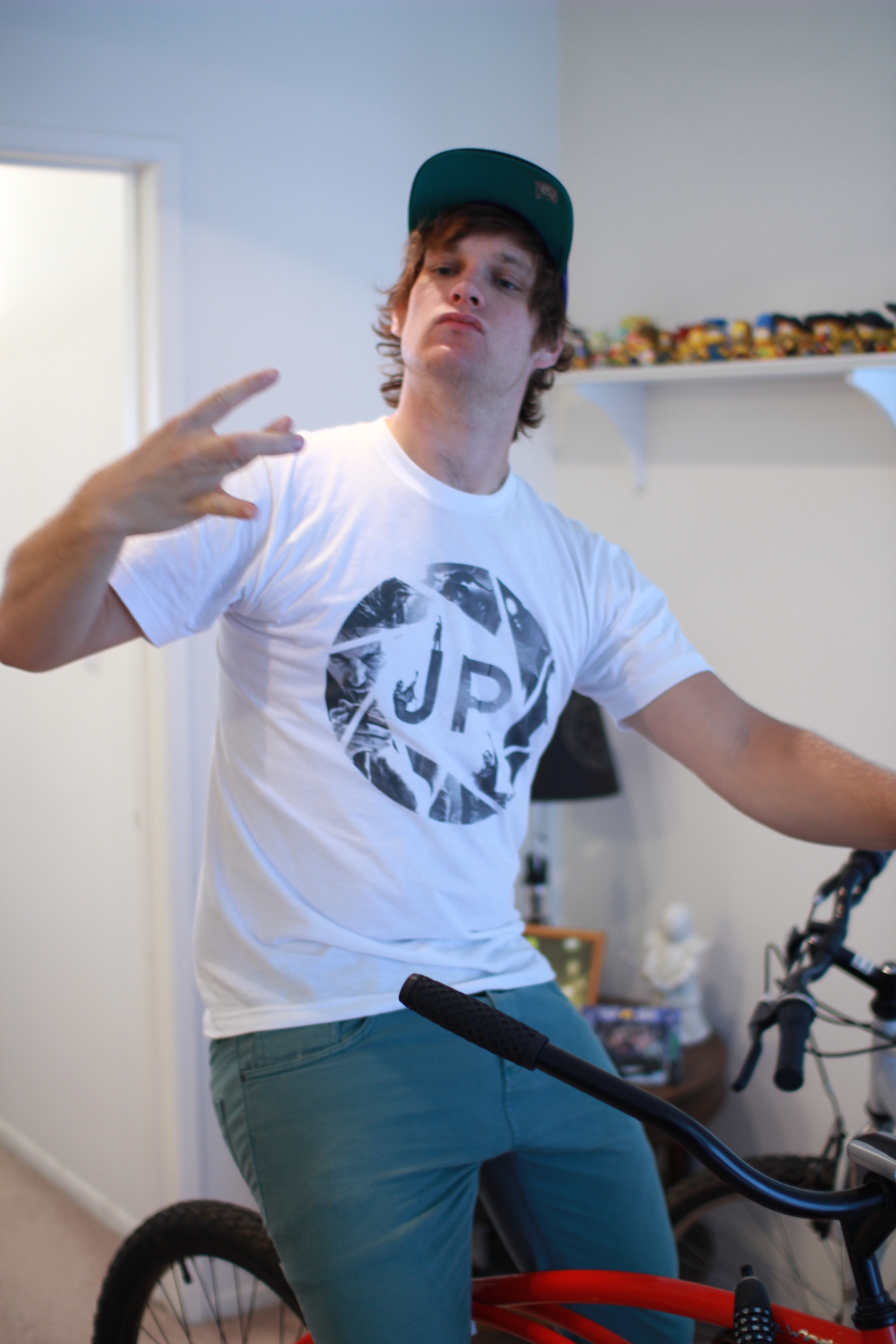 I visited Lars and took a photo of him on his bike, with Simpsons toys behind him.